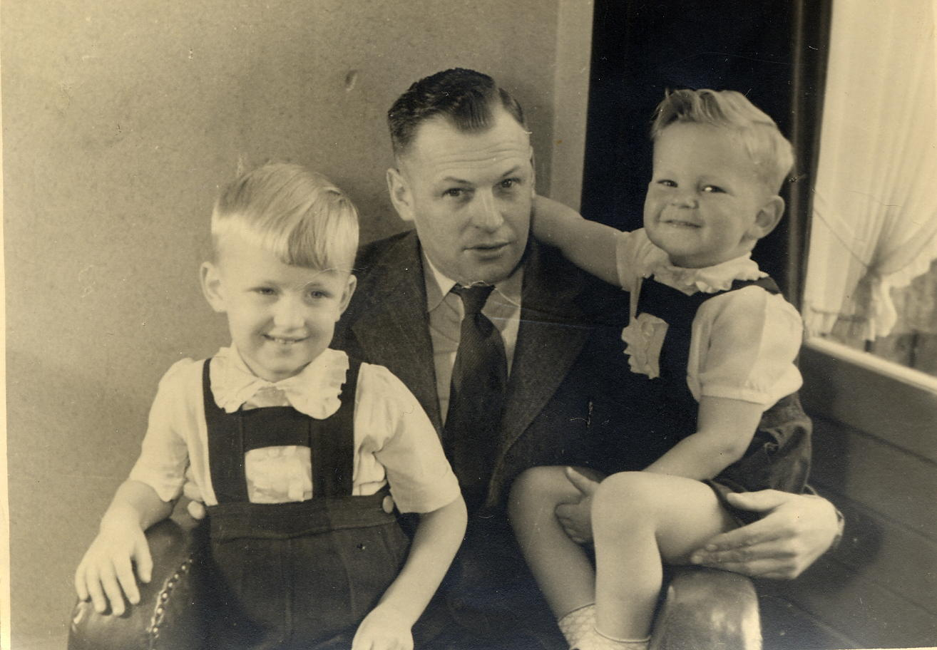 Jan Johannes van den Berg, with his son (left) Adrian ven deb Berg, and Nicolaas (right) in 1950. The photo was taken soon after their furniture arrived from The Netherlands, as van den Berg's family had just emigrated to South Africa.